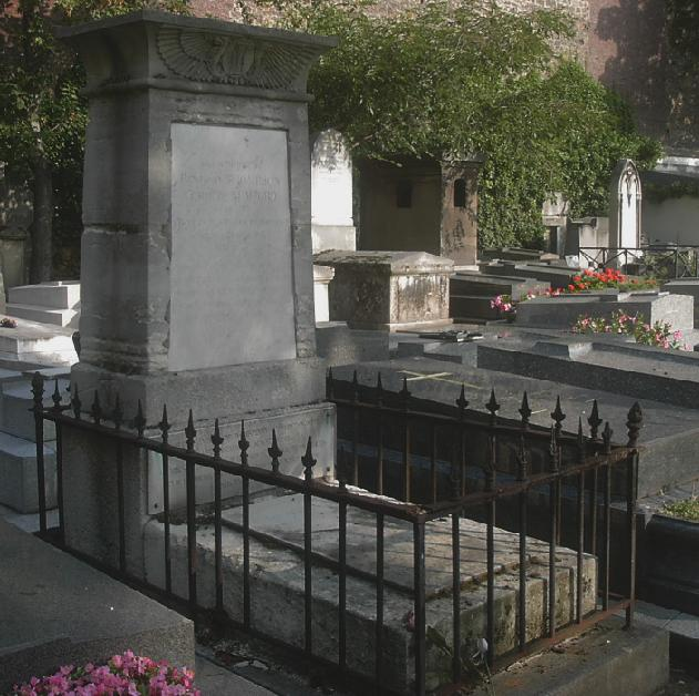 Personal photo from about 2004; no rights claimed